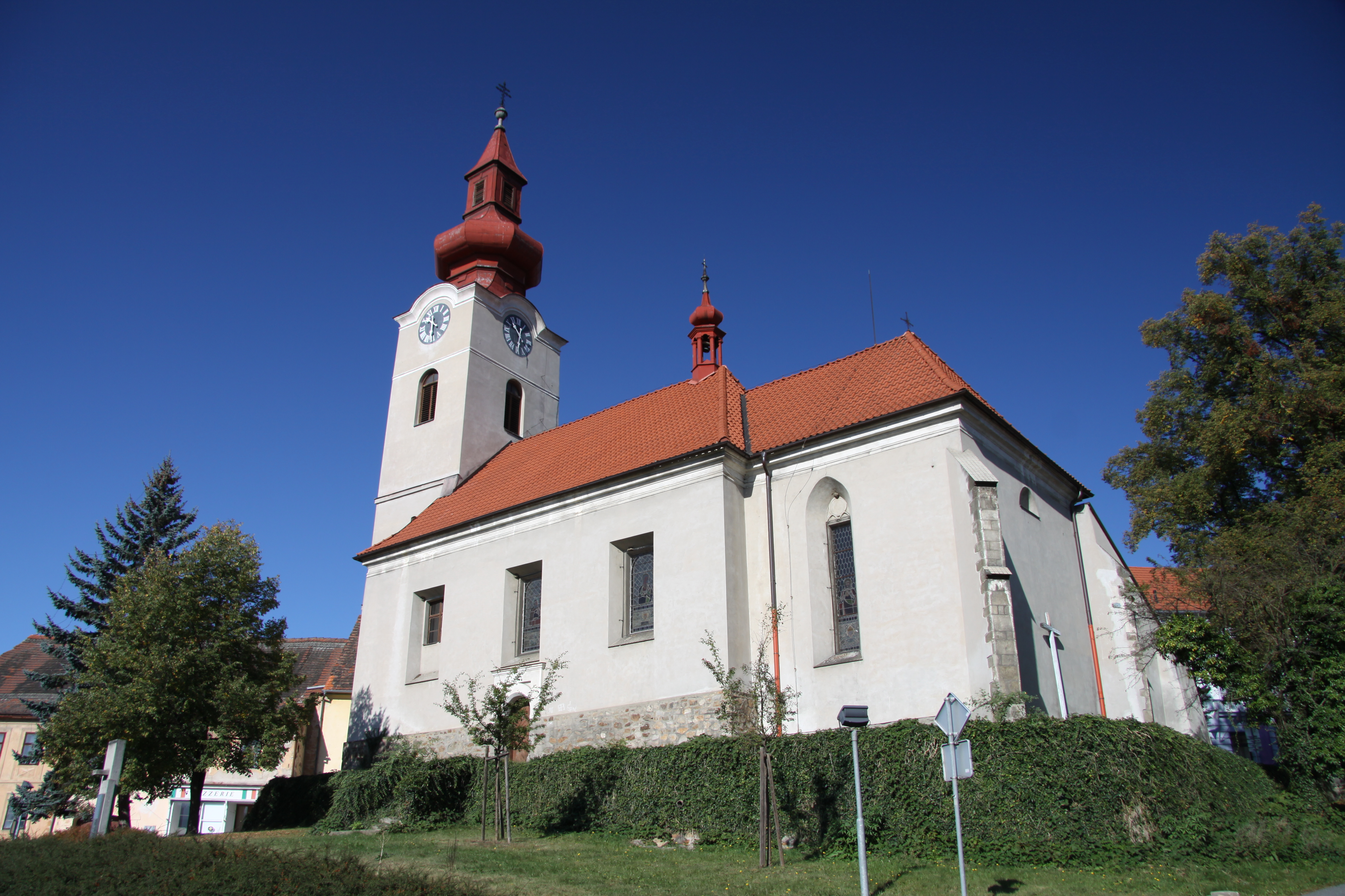 Husinec town in Prachatice District, Czech Republic. Church. - Google Maps - Google Earth